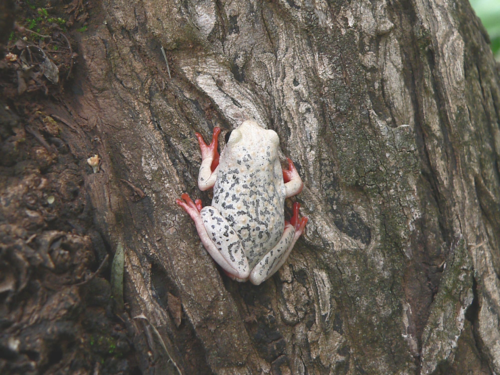 Common reed frog (Hyperolius viridiflavus ssp. pantherinus) photographed in Nanyuki, Kenya.